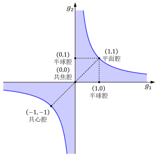 Chinese Version of Cavity Stability